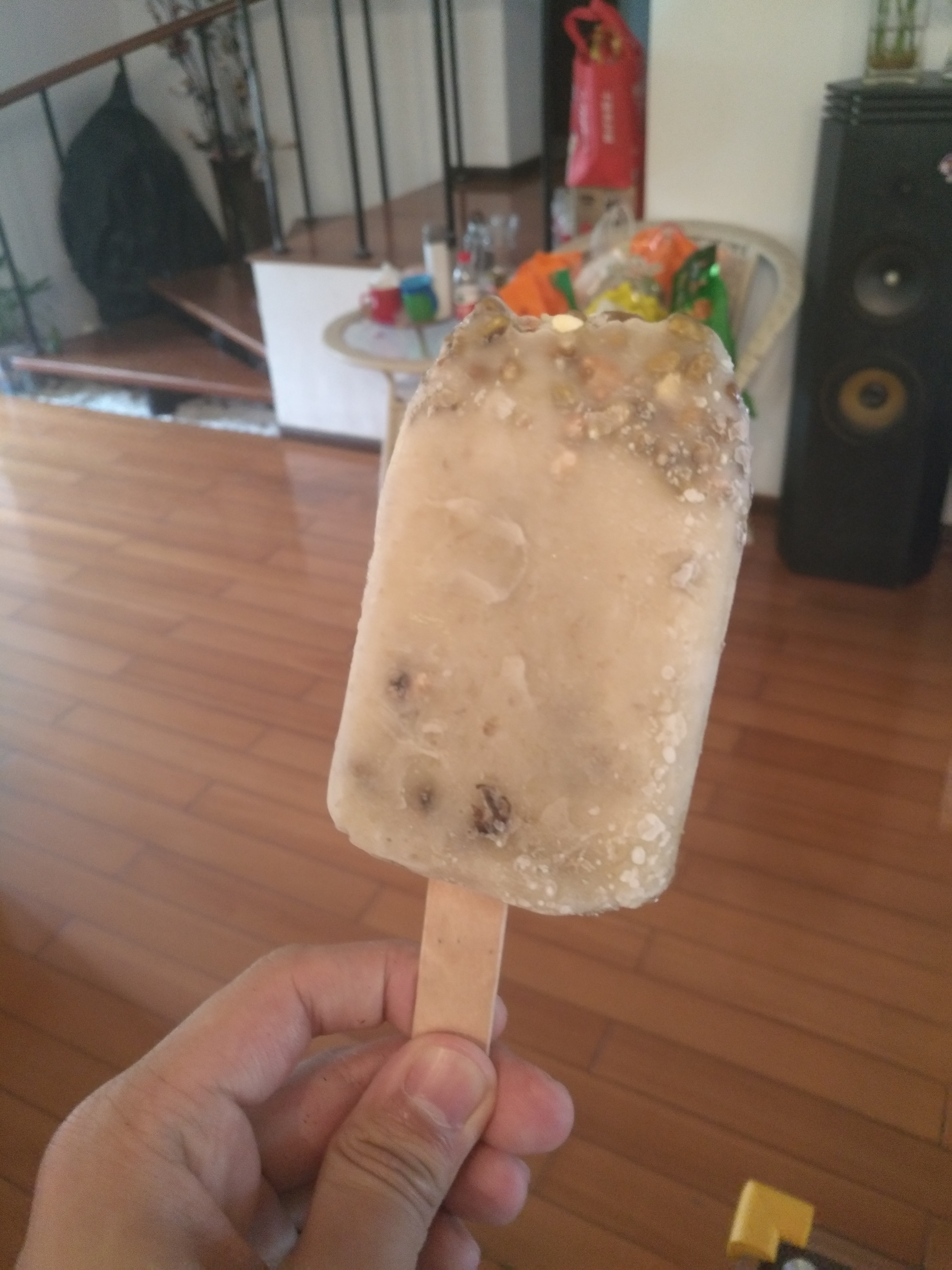 A Guangming Brand green bean popsicle, which manufactured by Shanghai Yimin No.1 Factory. This popsicle is not available at supermarkets for now, but we can buy it from smoke shops and wholesale markets. 中文（中国大陆）: 上海益民食品一厂生产的光明牌绿豆棒冰。现在在超市已经买不到它了，想买只能去烟杂店或者批发市场买……